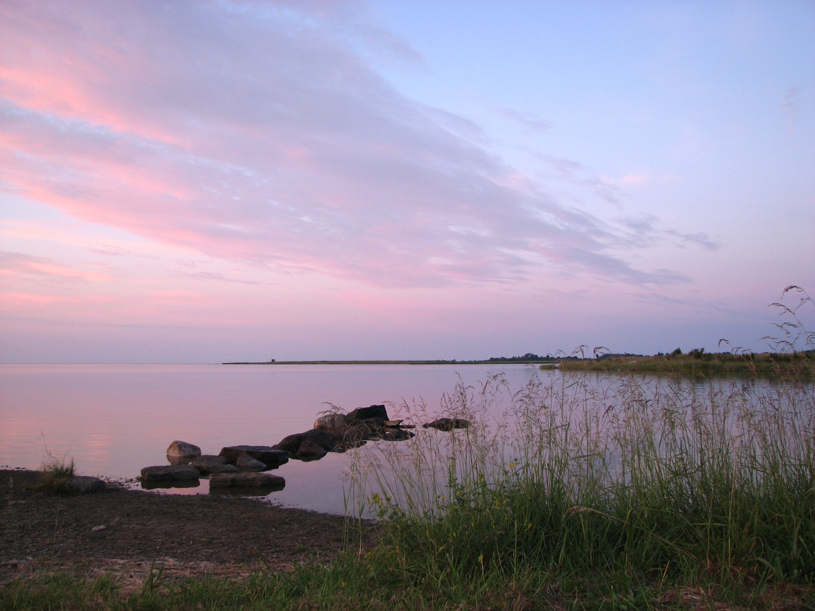 Kõiguste bay